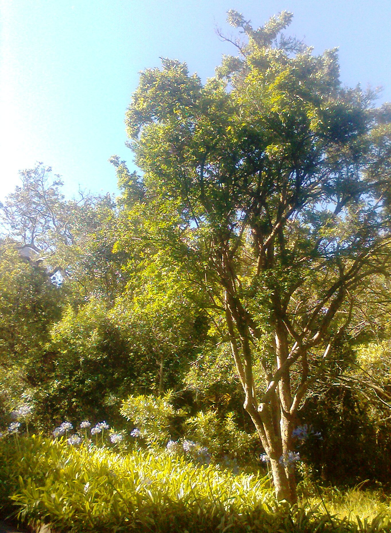 Canthium inerme tree - CT - Kirstenbosch